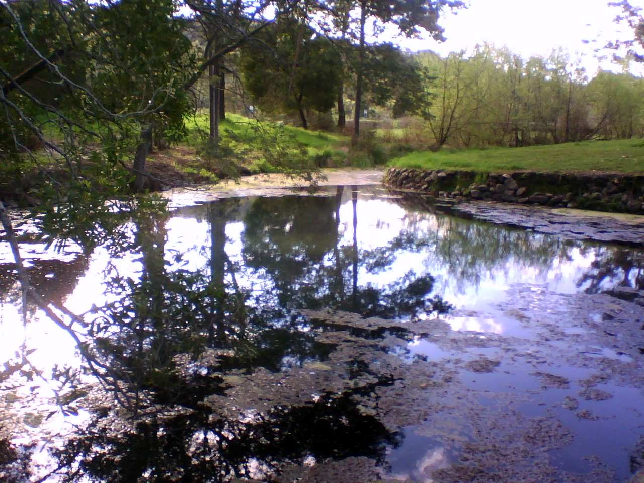 Constructed rock-pool at Kimberley Warm Springs, Tasmania.